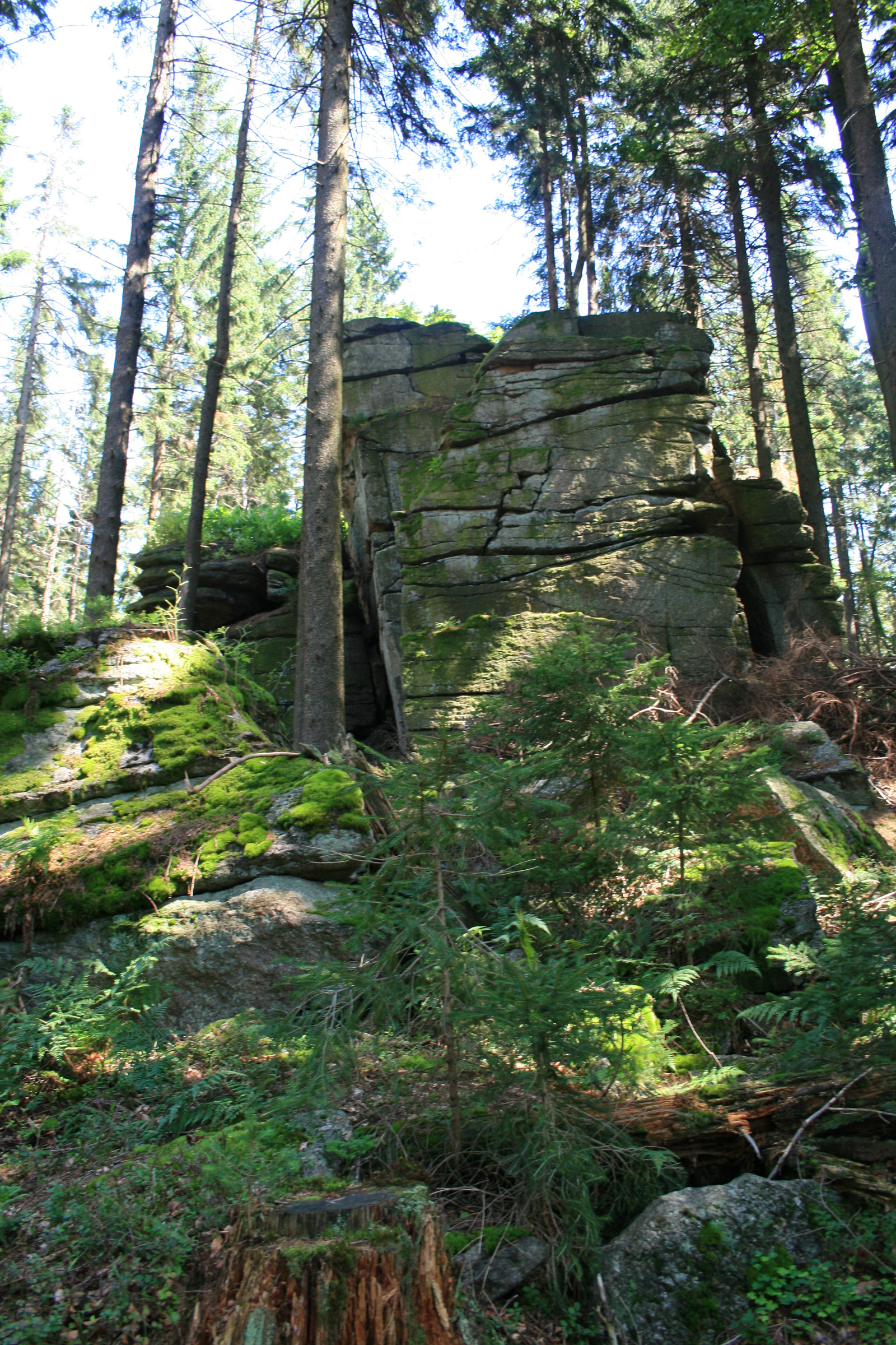 Forest and rocks on mountain Vysoká over Hojná Voda, part of Horní Stropnice, south Bohemia, Chzech Republic